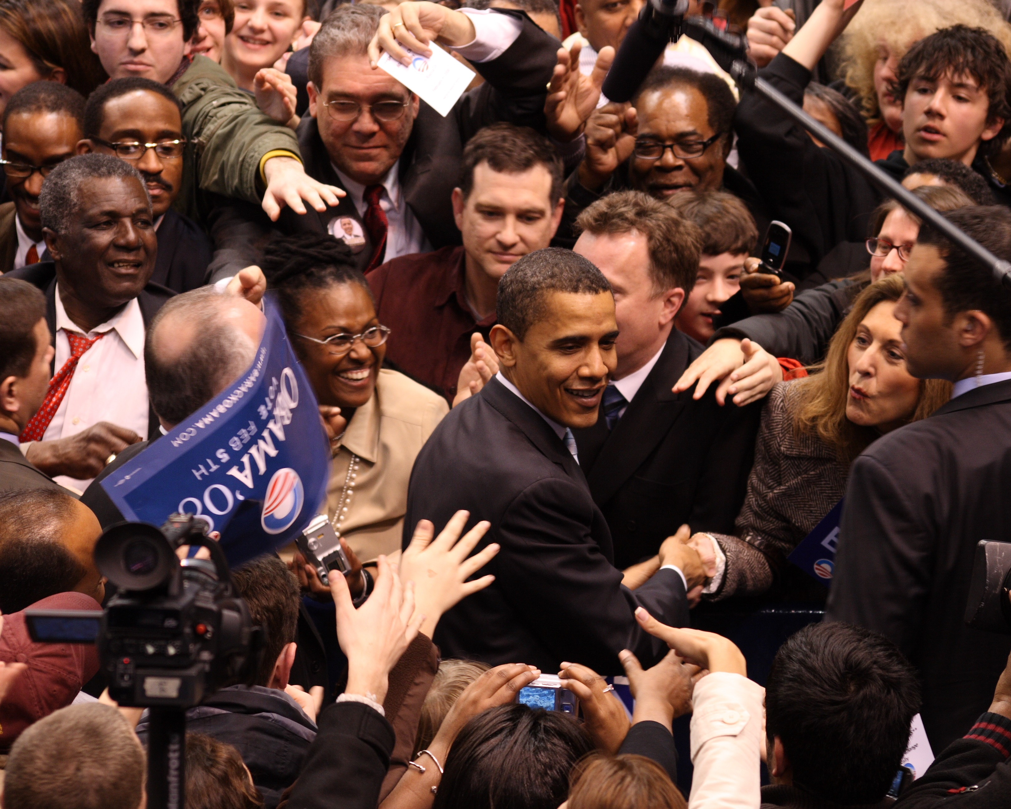 Senator Barack Obama shakes hands with supporters at the end of a rally at the XL Center in Hartford, Connecticut, the day before the Connecticut Super Tuesday primary.